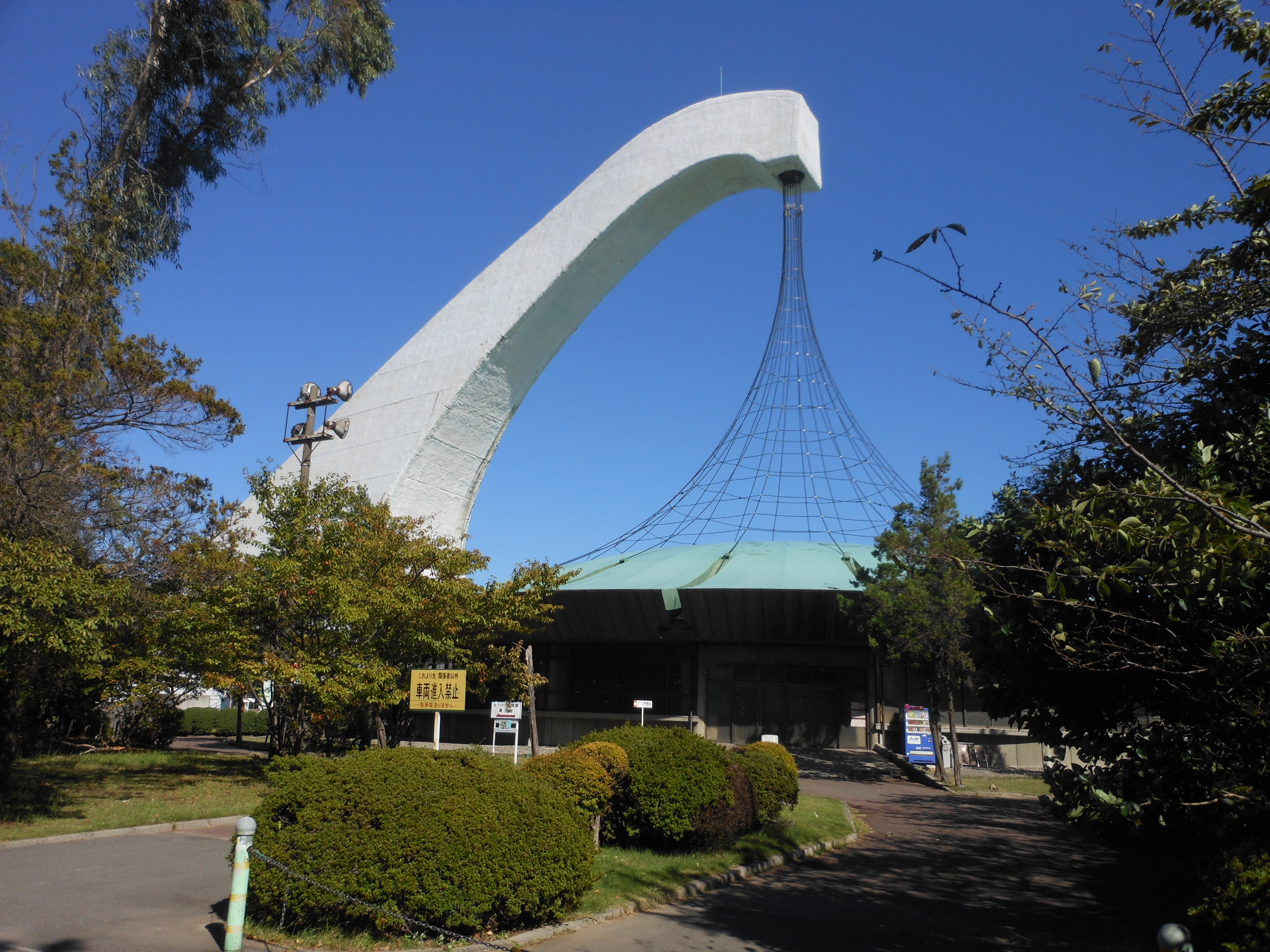 This is the Japan World Exposition Australia Memorial, which is in Yokkaichi port, Mie, Japan.